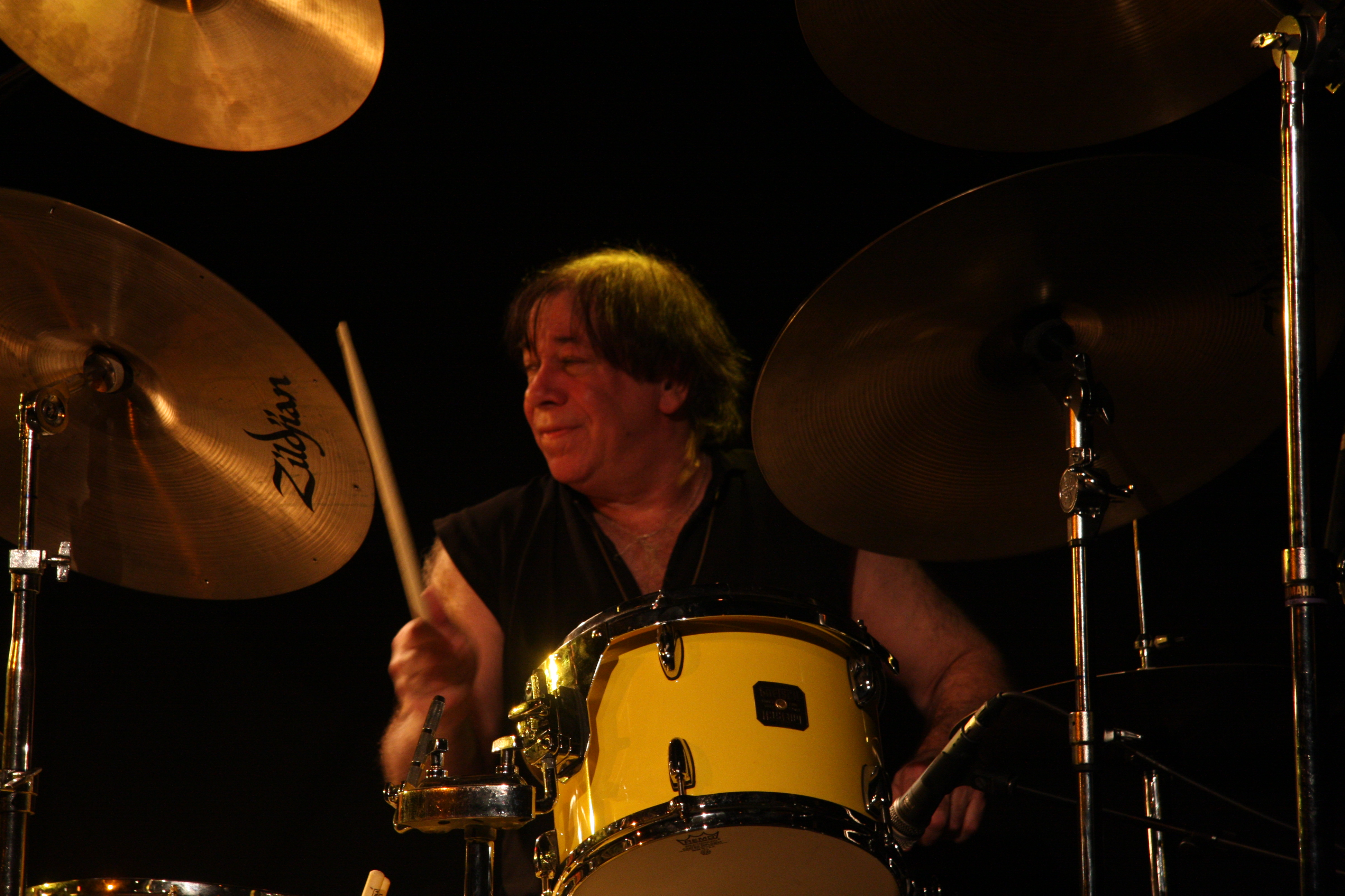 Christian Vander Quartet in the twentieth music festival Fort en Jazz in 2009 in Francheville, France. Personality rights warningAlthough this work is freely licensed or in the public domain, the person(s) shown may have rights that legally restrict certain re-uses unless those depicted consent to such uses. In these cases, a model release or other evidence of consent could protect you from infringement claims.